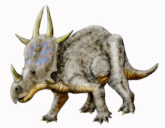 Styracosaurus ovatus (formerly Rubeosaurus).